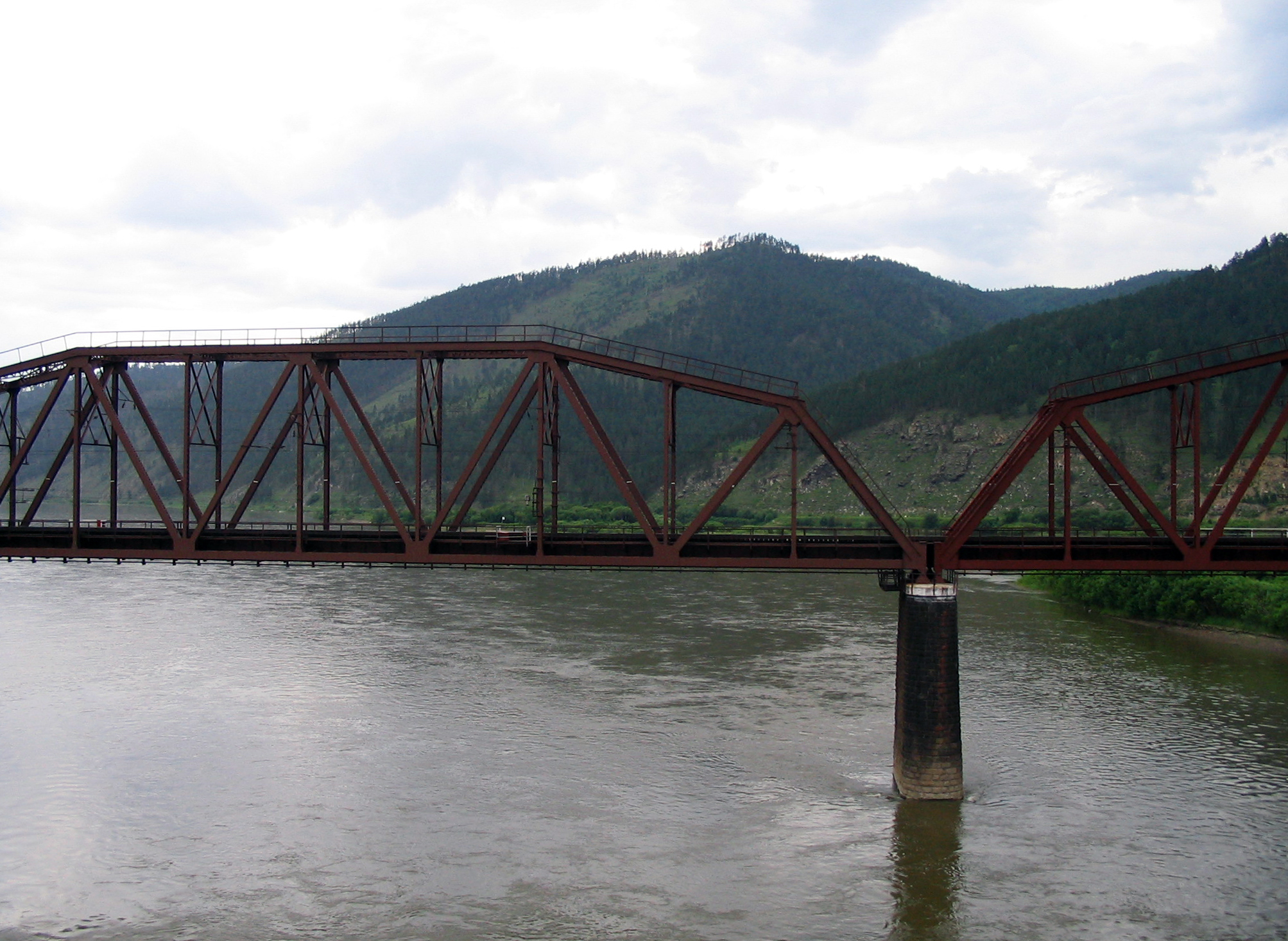 Railway bridge over the Selenga River outside of Ulan Ude, Russia. Taken by me 7/06, released into public domain